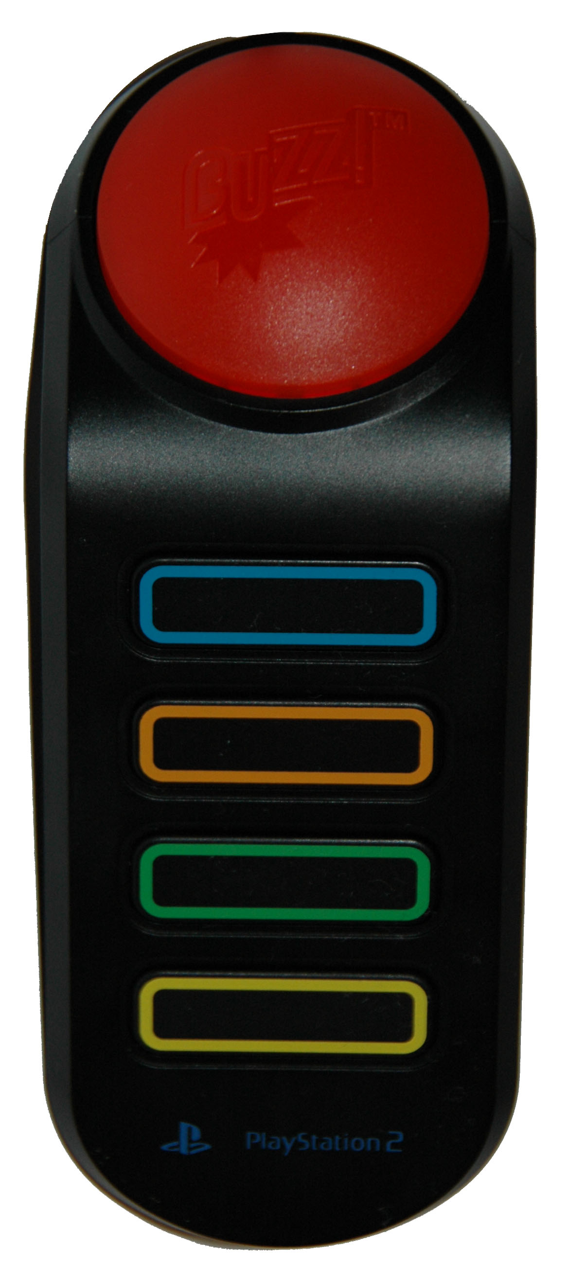 A Buzzer for the Buzz! series of video games